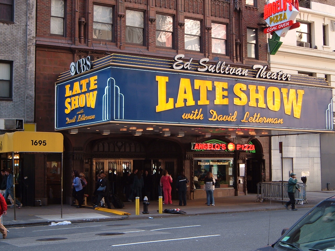 David Letterman Show